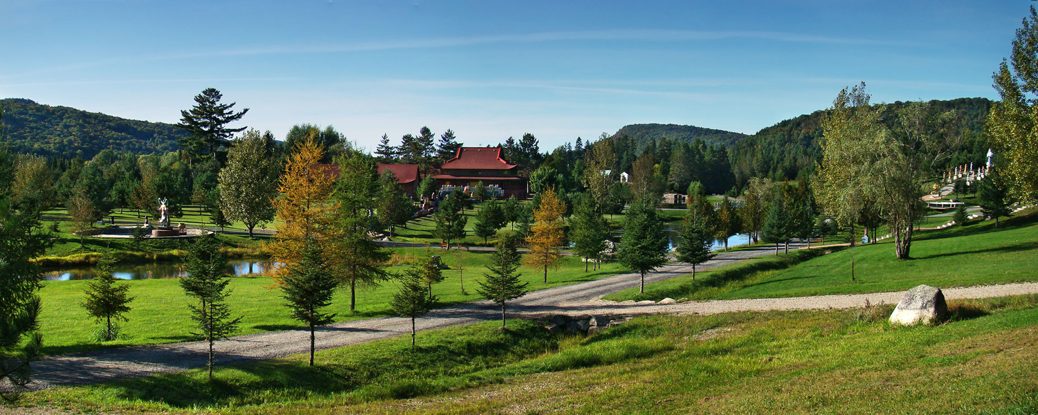 Buddhist Monastery of Tam Bao Son (meaning "Great Pines Monastery"), Township of Harrington, Laurentides, Quebec, Canada.